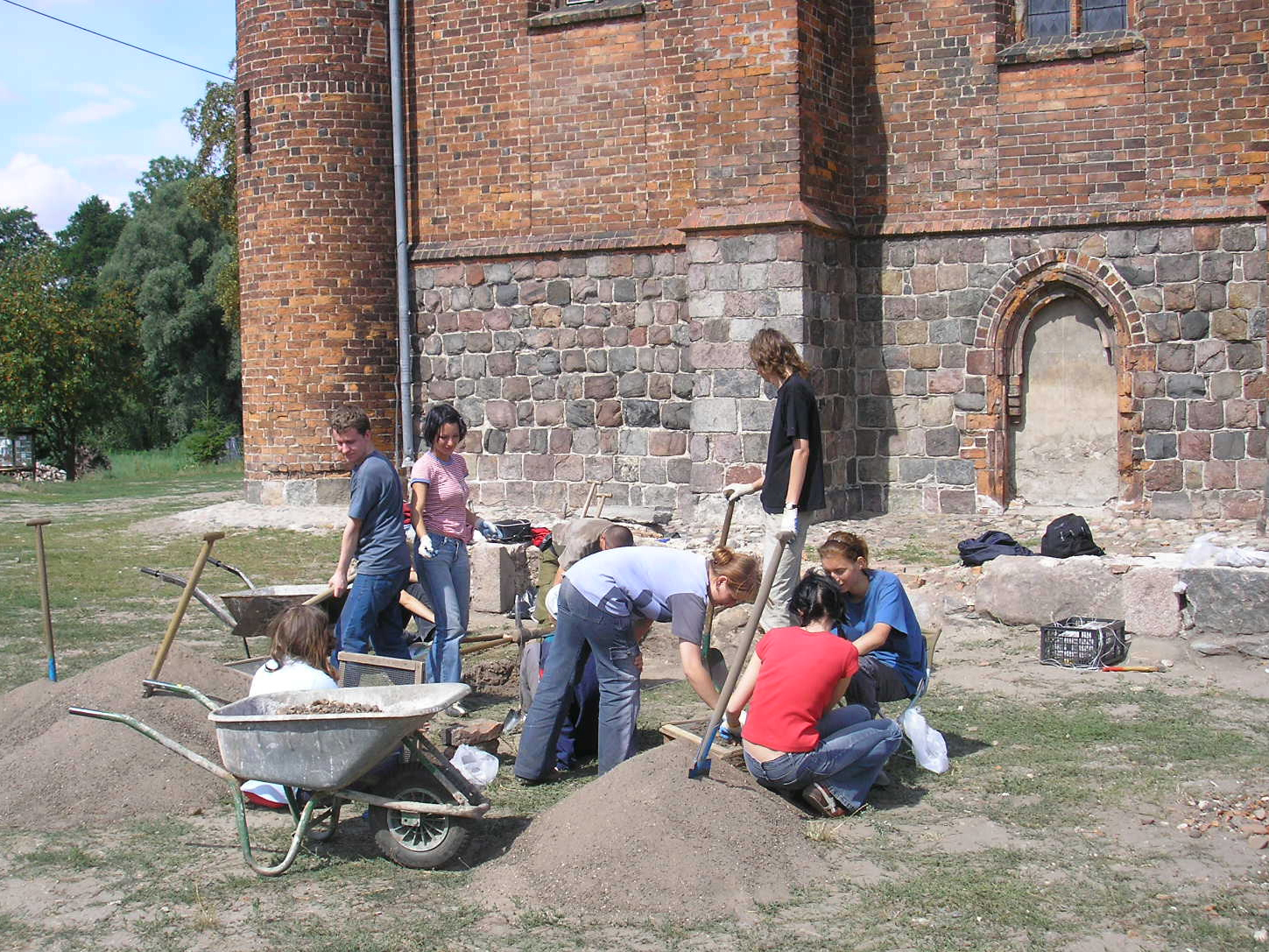 Excavation - Church Knights Templar in Chwarszczany (Quartschen), Poland